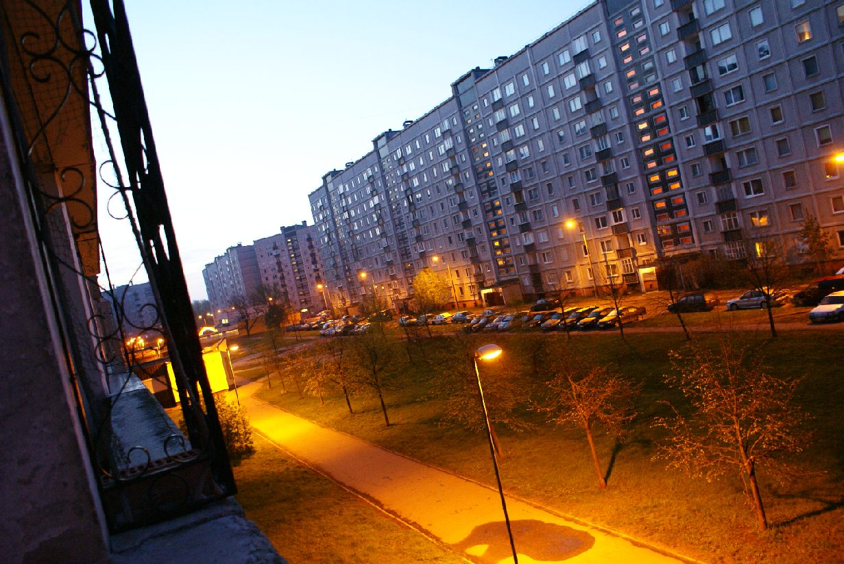 author: jatder date: 10 May 2007 description: a look to Aleksandra Bieziņa street on the early morning; looking east